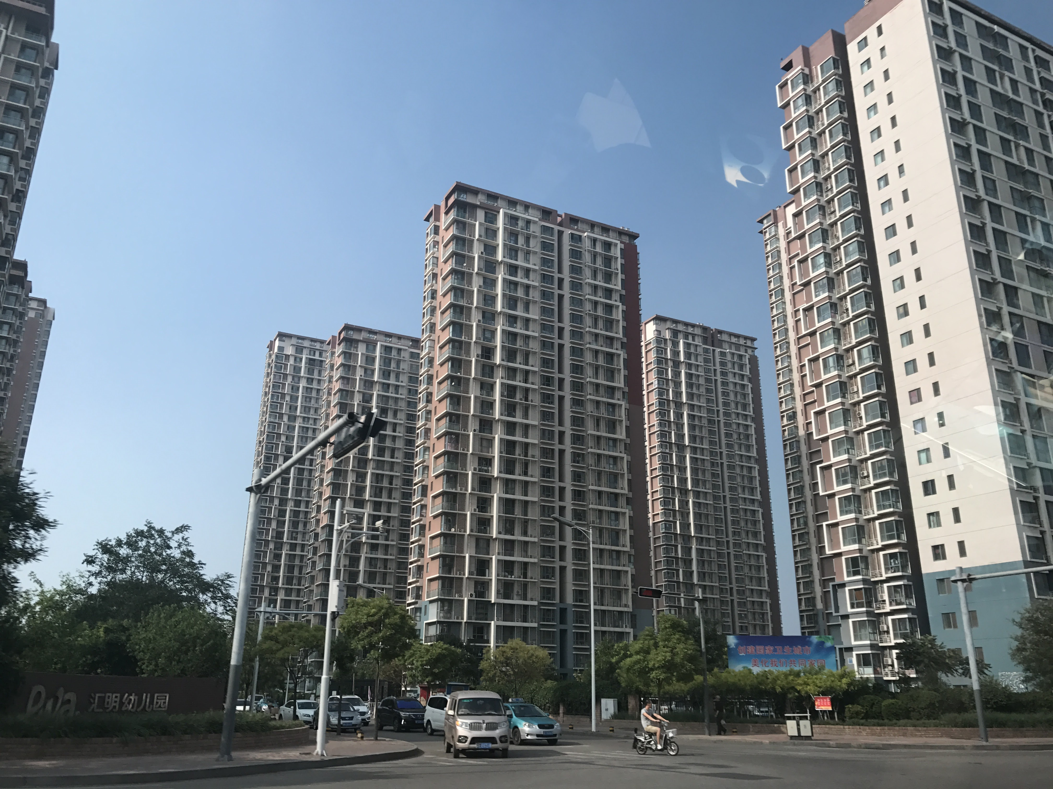 Photograph by Josh Jaffe (@josh_jaffe)